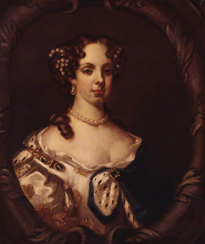 Queen Catherine of Braganza (1638-1705), wife of Charles II Stuart